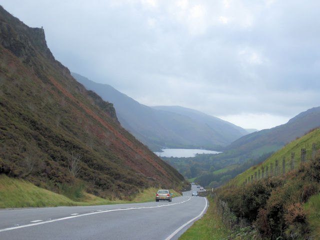 Down the hill towards Talyllyn lake on A487 Taken from A487 lay by